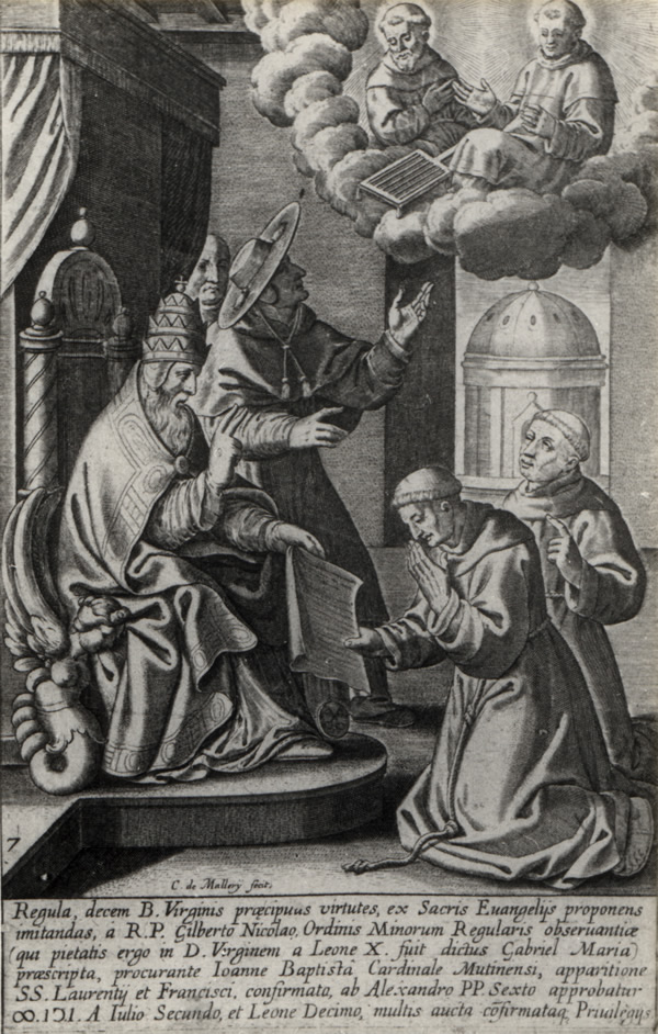 Engraving plate, with pope Leo X approving the rule for the Annunciade Nuns written by blessed Gabriel Maria NIcolas, on knees